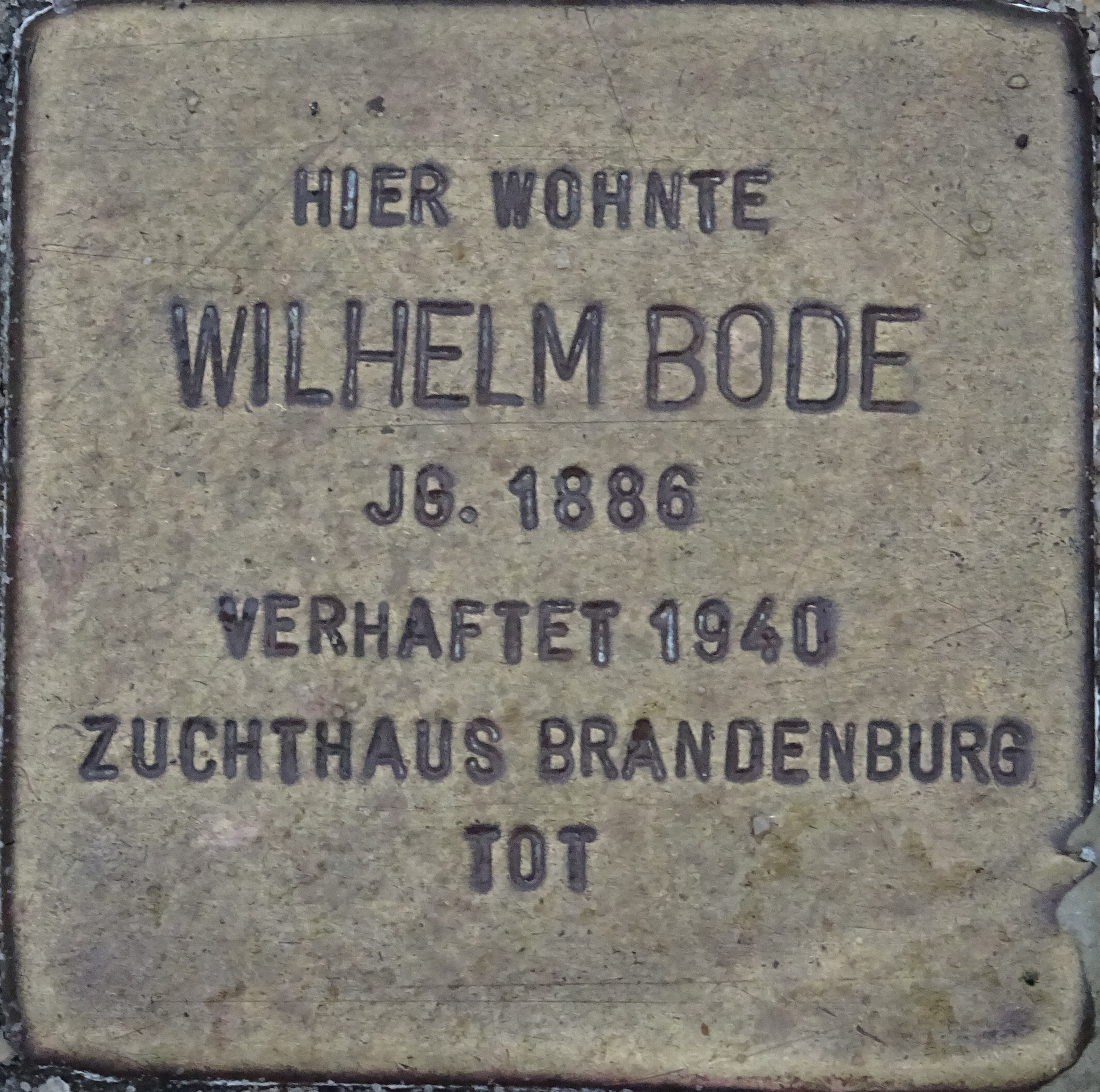 Stolperstein of Wilhelm Bode in Cottbus, Dissenchener Straße 98